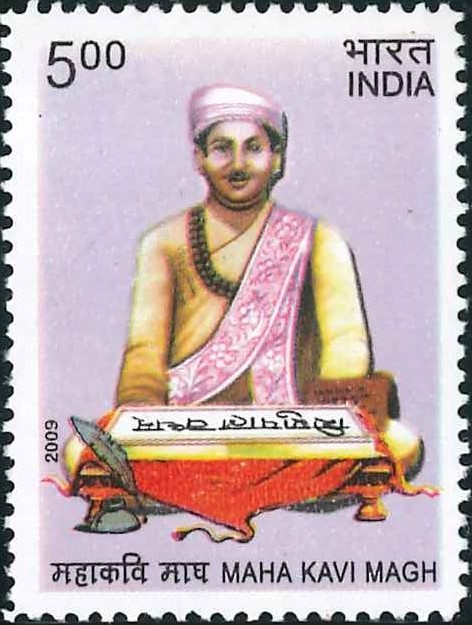 Poet Magh